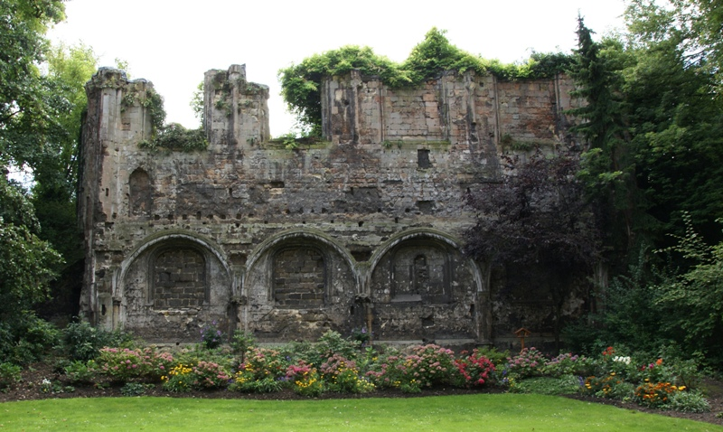 National monument 26874 - Brusselsestraat 38, Maastricht, The Netherlands